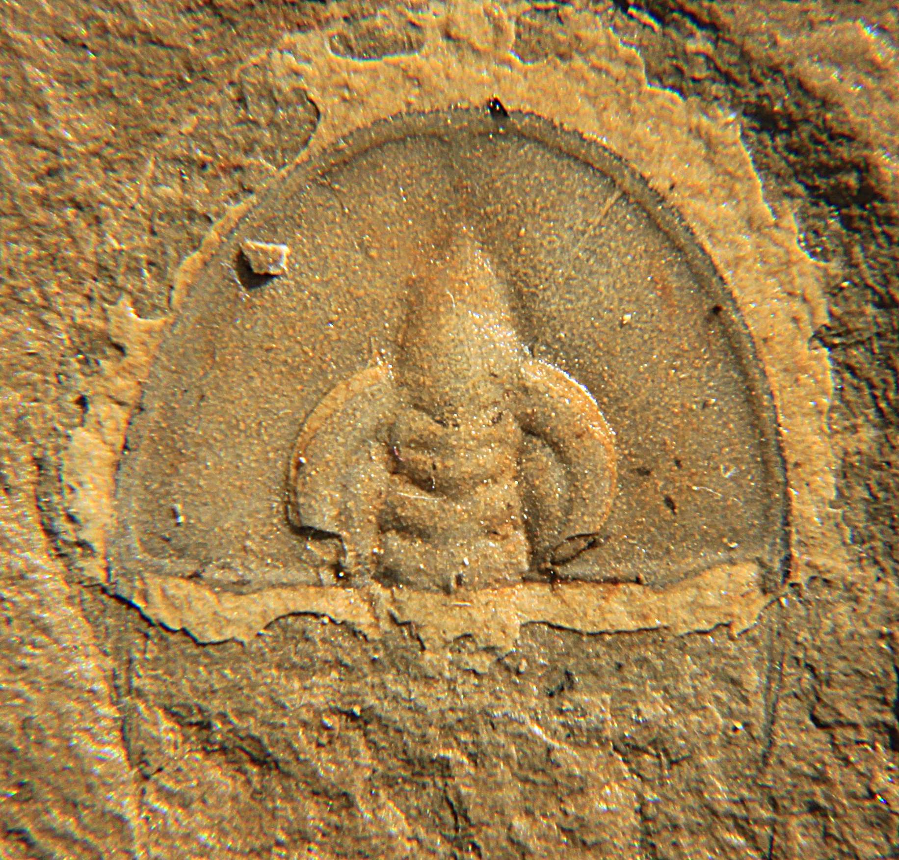 A cephalon of an Olenellus chiefensis trilobite, Order Redlichiida, Family Olenellidae, 10mm along the axis, collected from the Pioche Shale, Lincoln County, Nevada, USA, from the late Lower Cambrian (Toyonian)